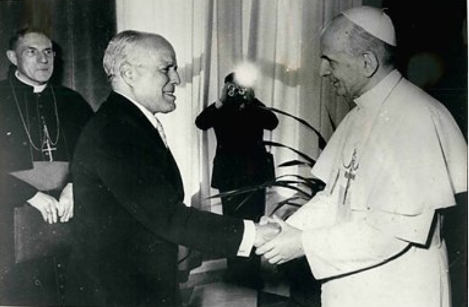 Visit of Tunisian president Bourguiba to pope Paul VI in the vatican city.